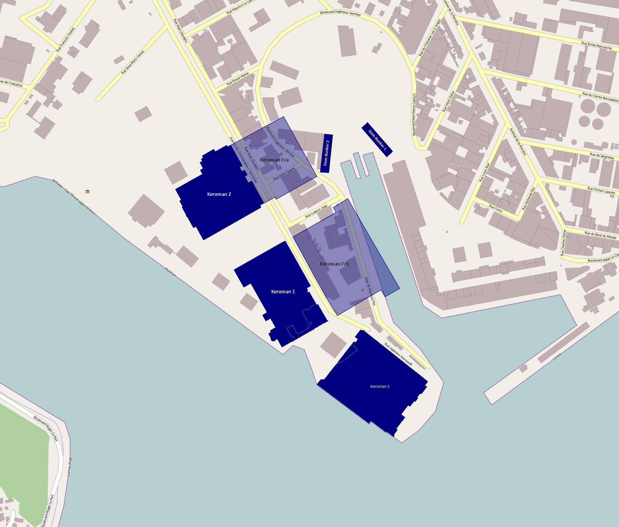 Lorient Submarines base, France